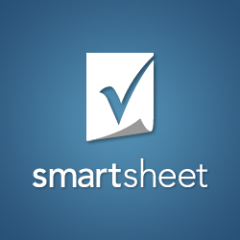 The logo of the Smartsheet company.